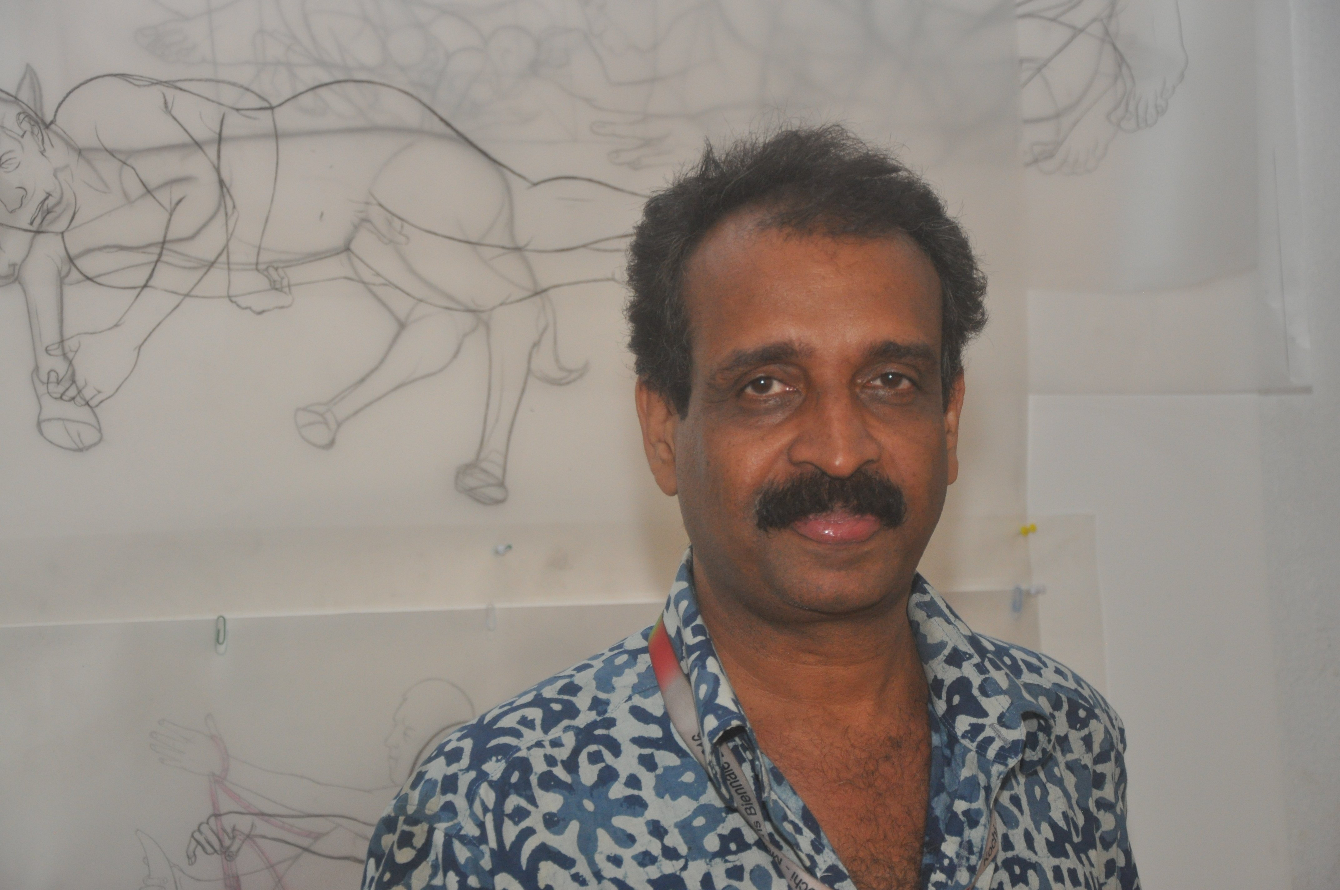 Artist C Bagyanath in Kochi-Muziris Biennale 2016